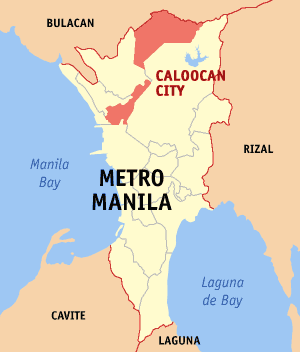 Map of Metro Manila showing the location of Baao